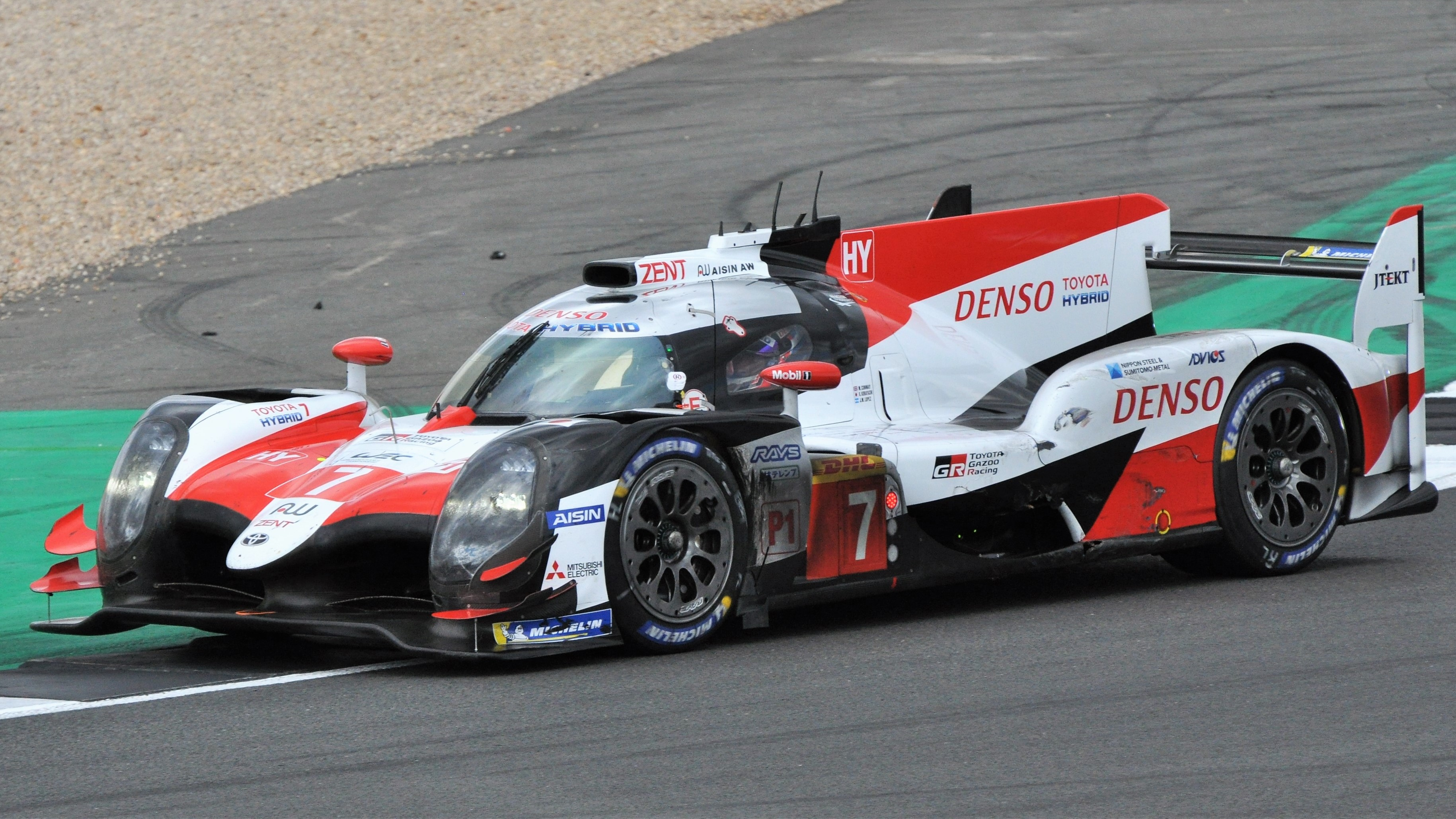 Argentinian driver José María López pilots his Toyota TS050 car through Club corner, during the 2018 6 Hours of Silverstone race. López and his co-drivers, Kamui Kobayashi and Mike Conway, eventually finished in second place, but were subsequently disqualified as their car infringed the technical regulations.